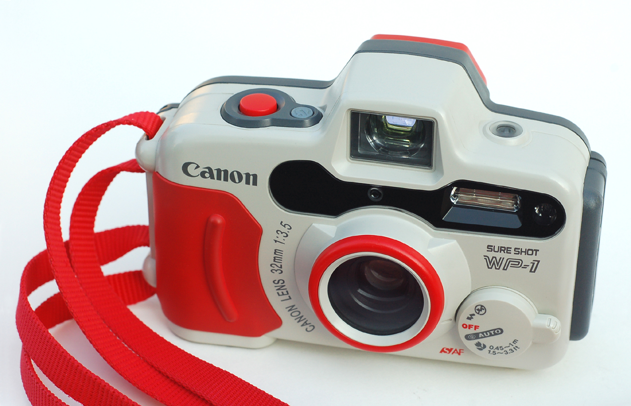 The Canon WP-1 is a waterproof 35mm film camera. There is some discrepancy (in reviews) as to whether this camera is actually waterproof or merely weatherproof. I don't know why this is, since Canon's literature states pretty clearly that it's waterproof. I even went a step further and talked to a Canon rep, who confirmed it. At any rate, I took it swimming with me last weekend, and the inside was bone dry when I opened it up afterward. The picture quality is supposed to be excellent, although I haven't had my film developed yet. At the very least, it should be much better than those one-time-use waterproof cameras you get at the drug store, and you can get one almost as cheaply. The WP-1 is nearly identical to the Sure Shot A-1, but I don't know what the difference is, other than the color of the grip. Production of the WP-1 began in April of 1994. Technical specs can be found at Canon's website.